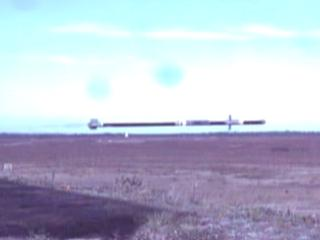 Screenshot of a DAGR missile from a video shot by the USAF at Eglin Air Force Base